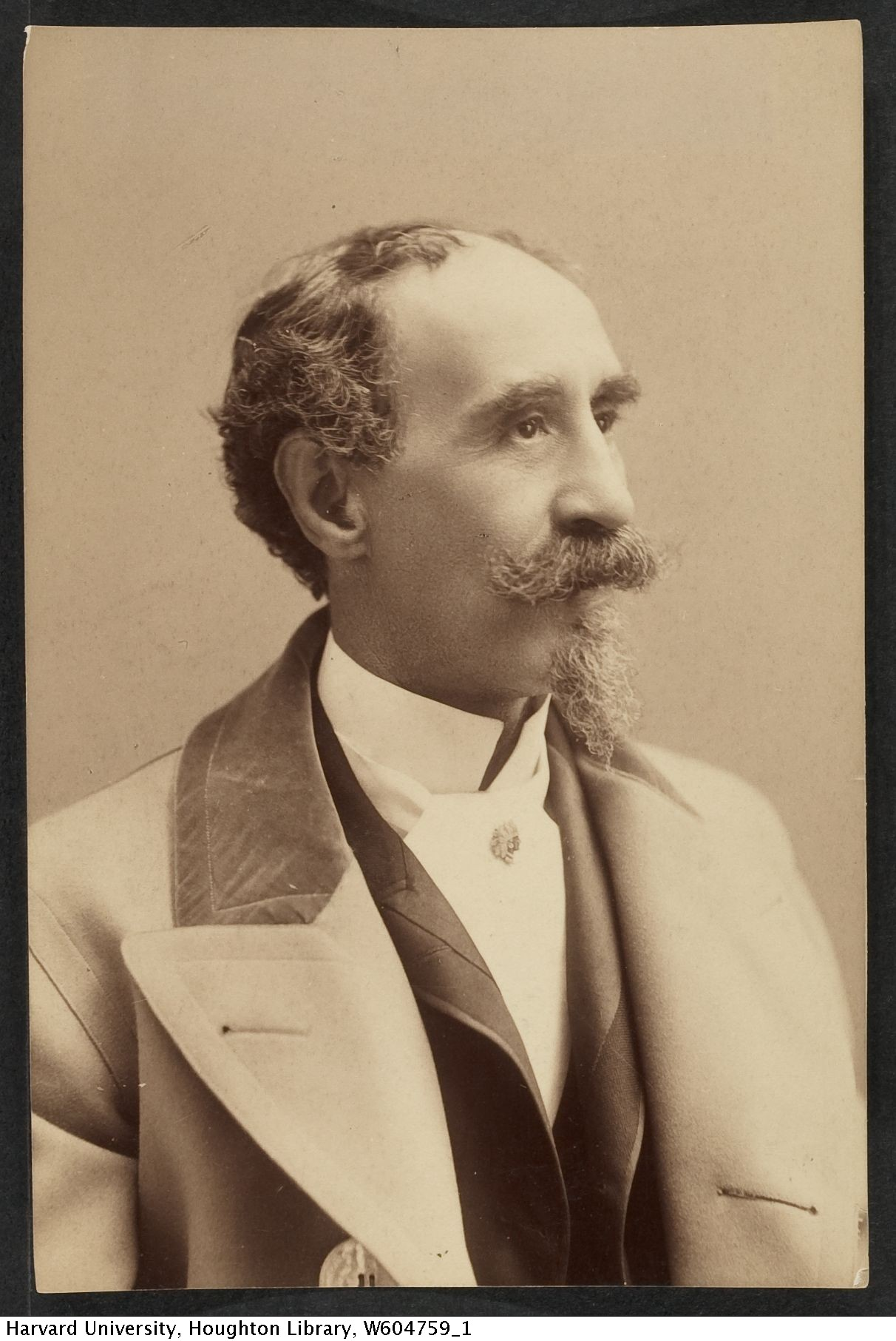 Cabinet card image of French magician Alexander Herrmann (1844-1896), who performed under the name Hermann the Great. TCS 1.317, Harvard Theatre Collection, Harvard University